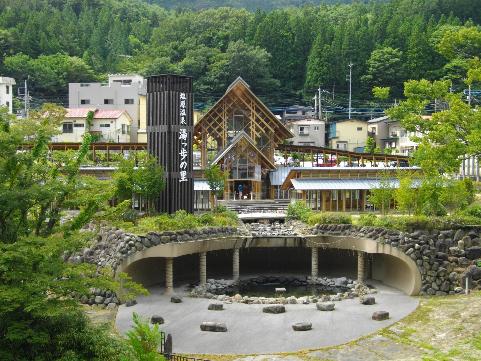 Yuppo no Sato